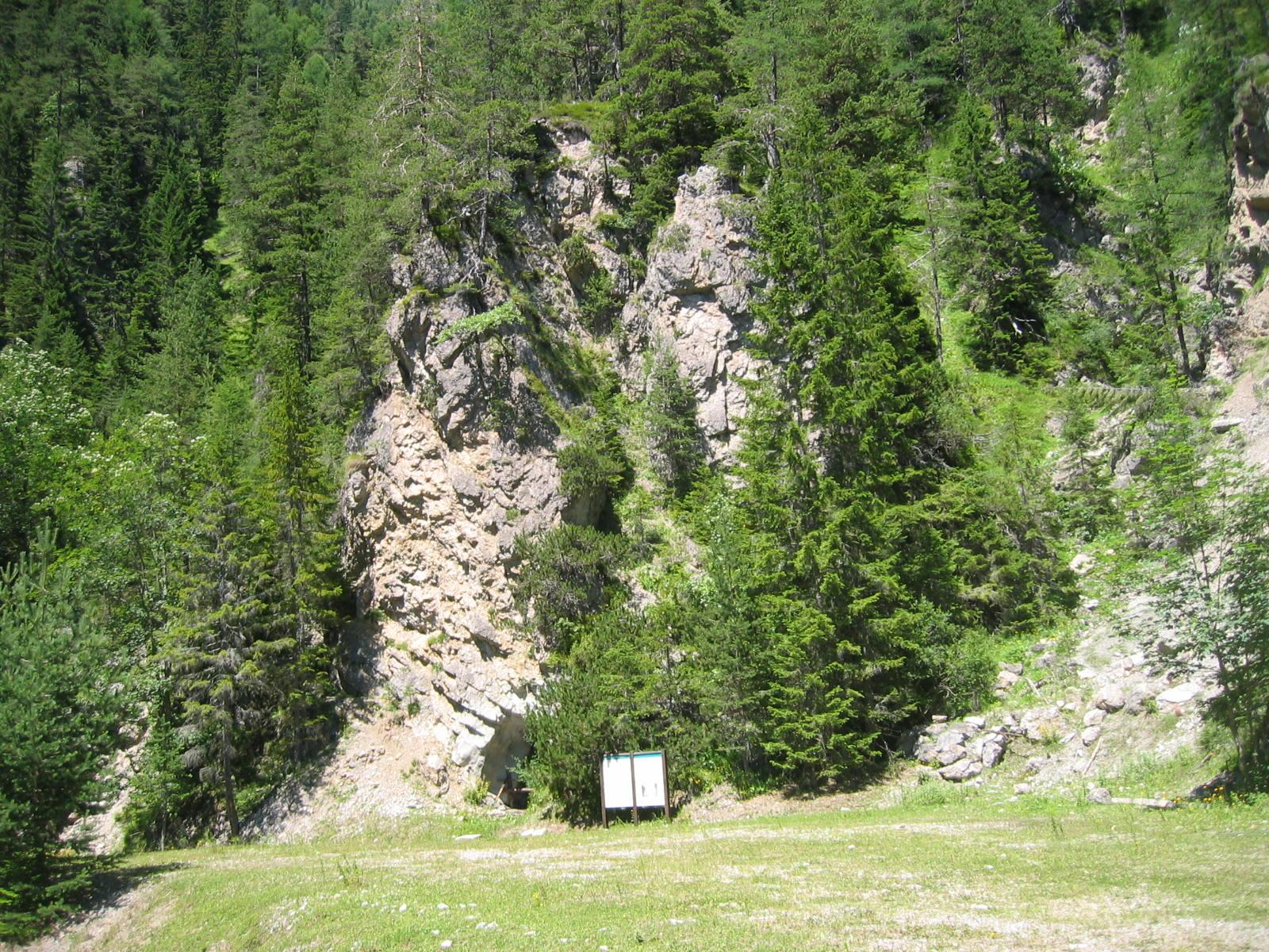 Entrance to "Topla" mines in landscape park of valley Topla, Slovenia photo:Ziga 12:58, 13 August 2006 (UTC)